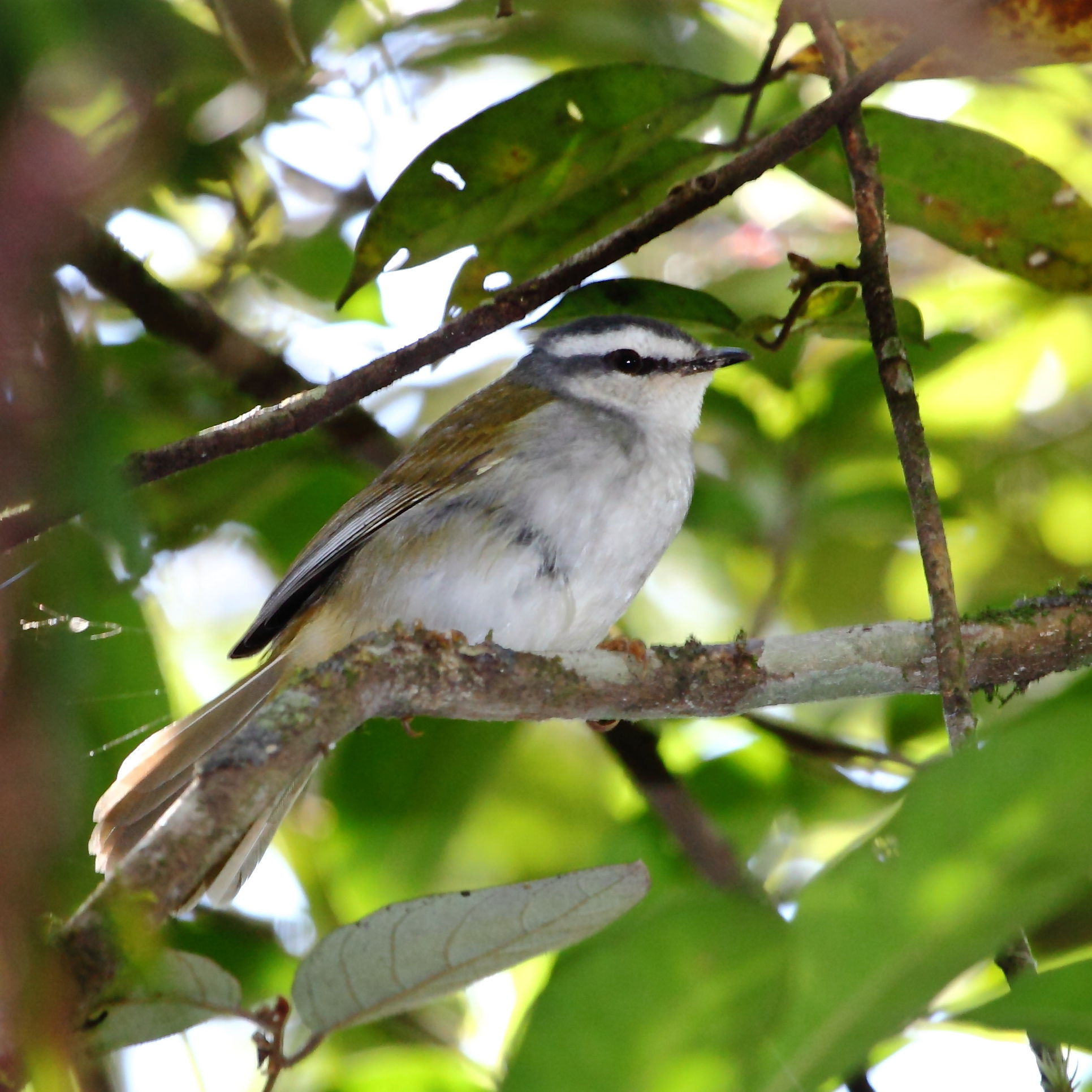 White-striped Warbler at Dourado - SP - Brazil